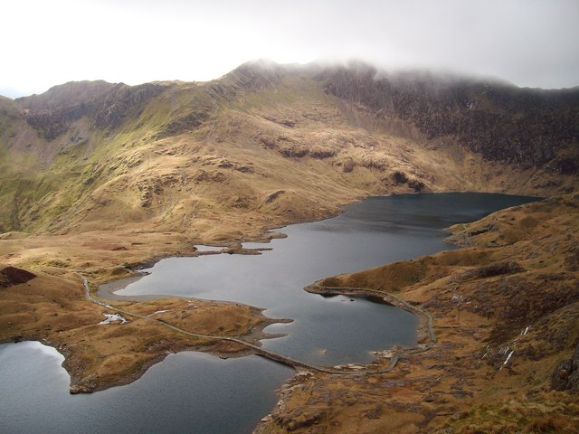 Llyn Llydaw Taken from Craig Fach (Dewey) whilst hill bagging.